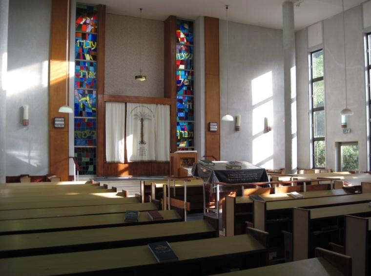 Ohel Yitzhak Synagogue on the grounds of the youth village